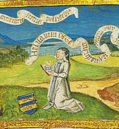 Els von Gemmingen (1466-1532), Priorin von St. Magdalena in Speyer